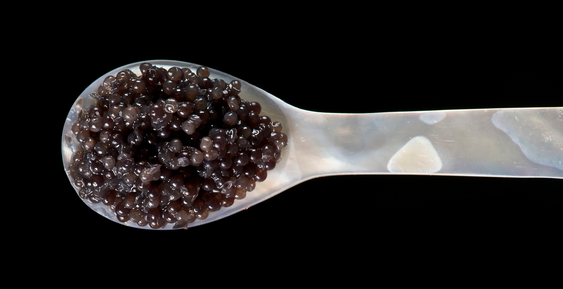 Spoon with black caviar (Mother of Pearl spoon with sturgeon caviar)